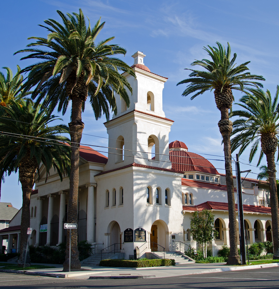 First Church of Christ, Scientist The First Church of Christ building built in 1901 at 3606 Lemon St Riverside California is the oldest Mission Revival style building still existing in Riverside.